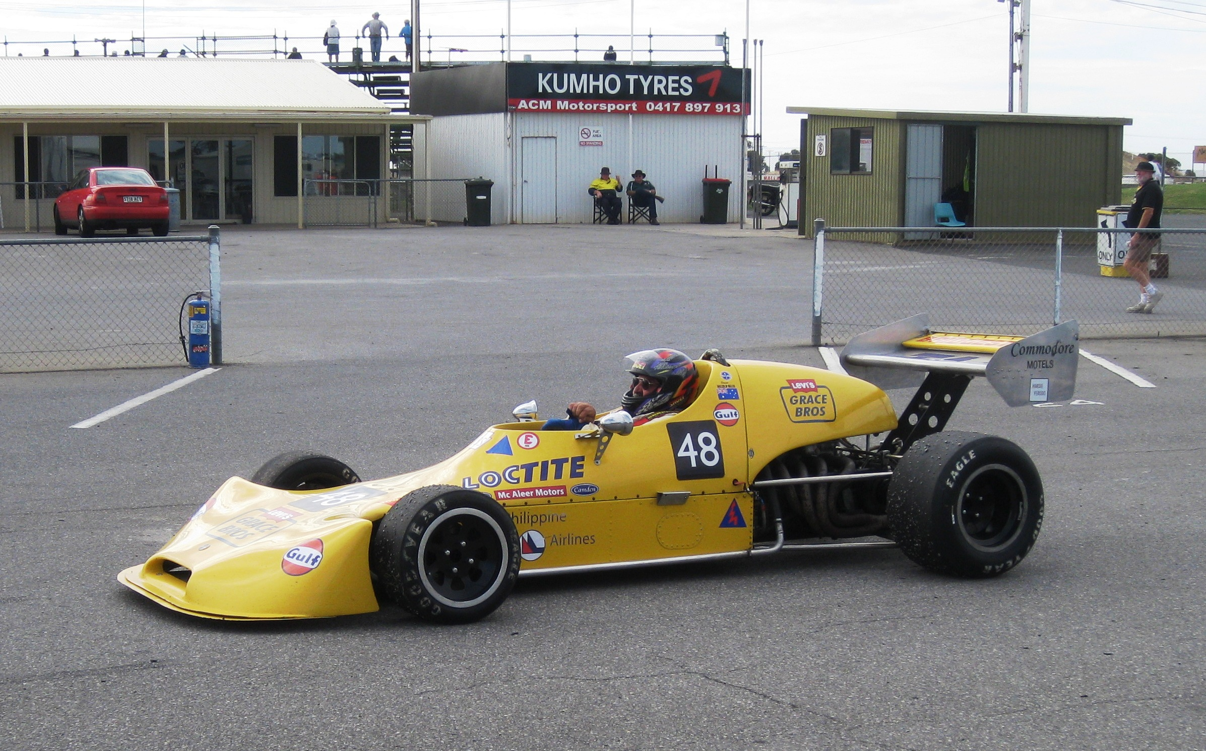 The Birrana 274 of Malcolm Miller at Mallala Motor Sport Park on 3 April 2010. The 274 was developed by Birrana Engineering in Adelaide, South Australia in 1974 for Australian Formula 2 racing. Discussion with the owner on 7 July 2010 revealed that this is the ex Leo Geoghegan car.